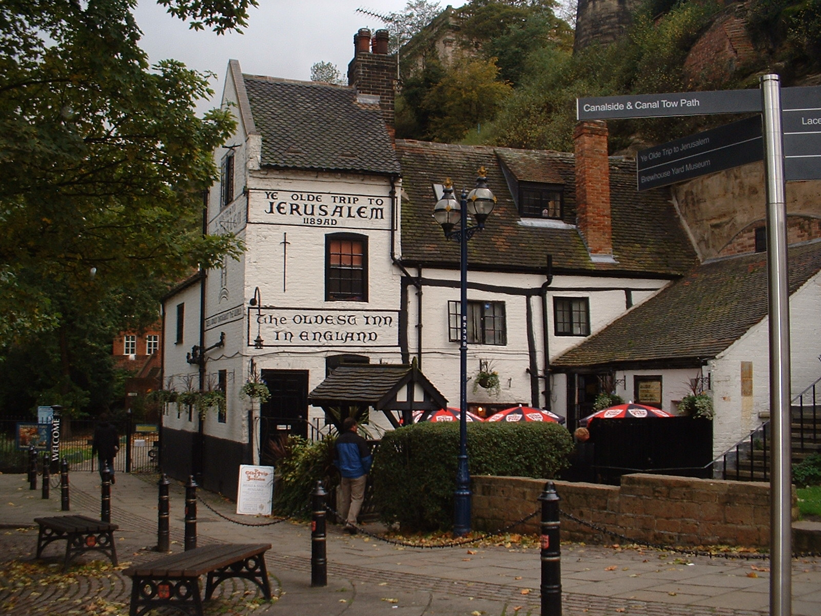 Ye Olde Trip To Jerusalem, Nottingham. Taken by Necrothesp, 25 October 2005.